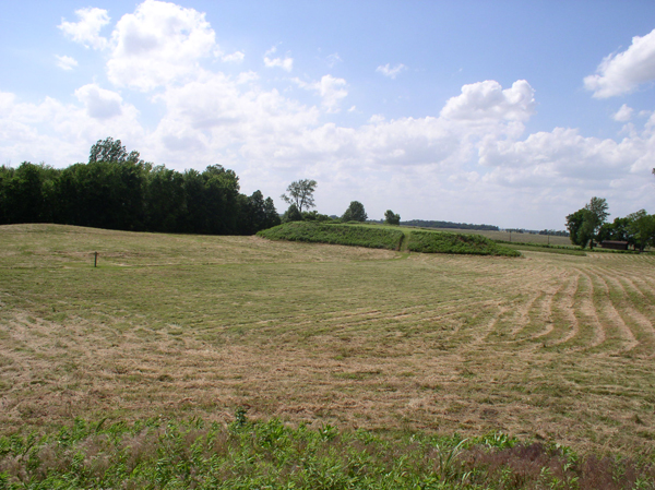 A photo from the Towosahgy State Historic Site in Mississippi County, a Mississippian culture settlement.